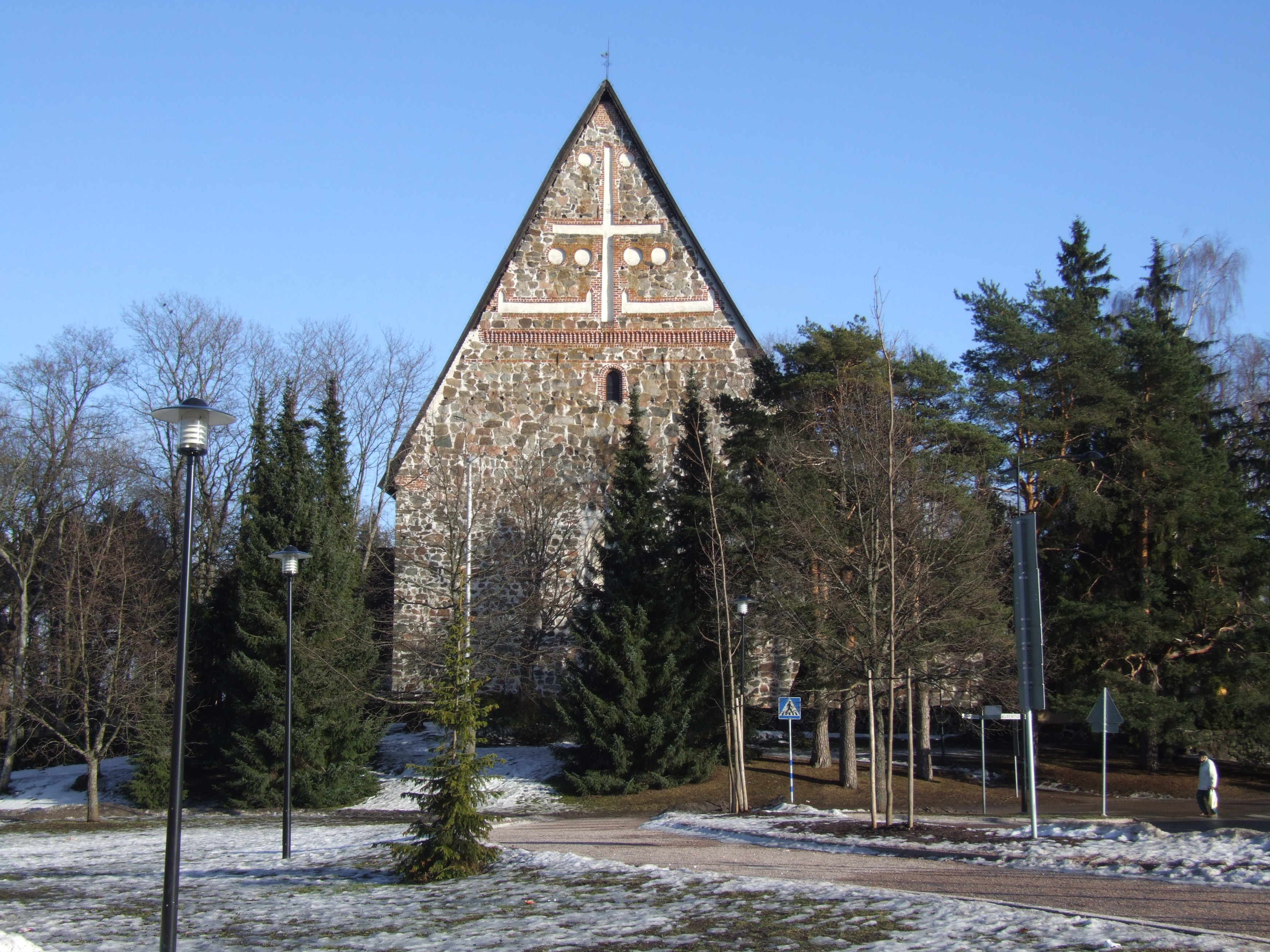 Lohja St. Laurence church in March 2007